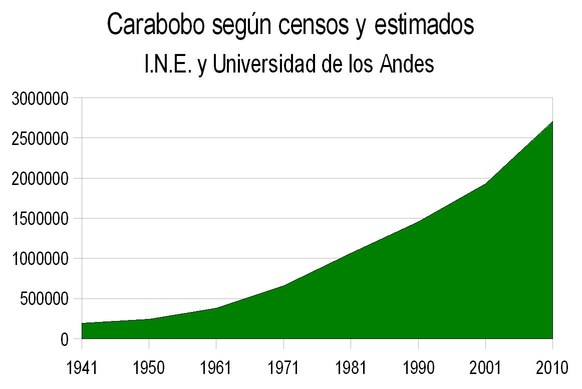 Demographic development of Carabobo state in Venezuela